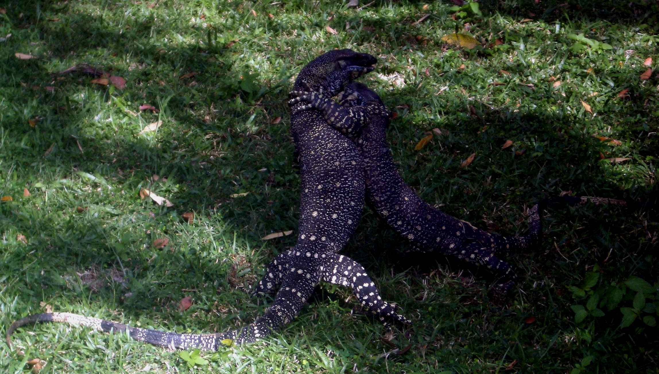 I took this photo of Lace Monitors fighting in by back yard in Cooktown, Australia yesterday, 3 August, 2006. John Hill. John E. Hill 00:44, 4 August 2006 (UTC)